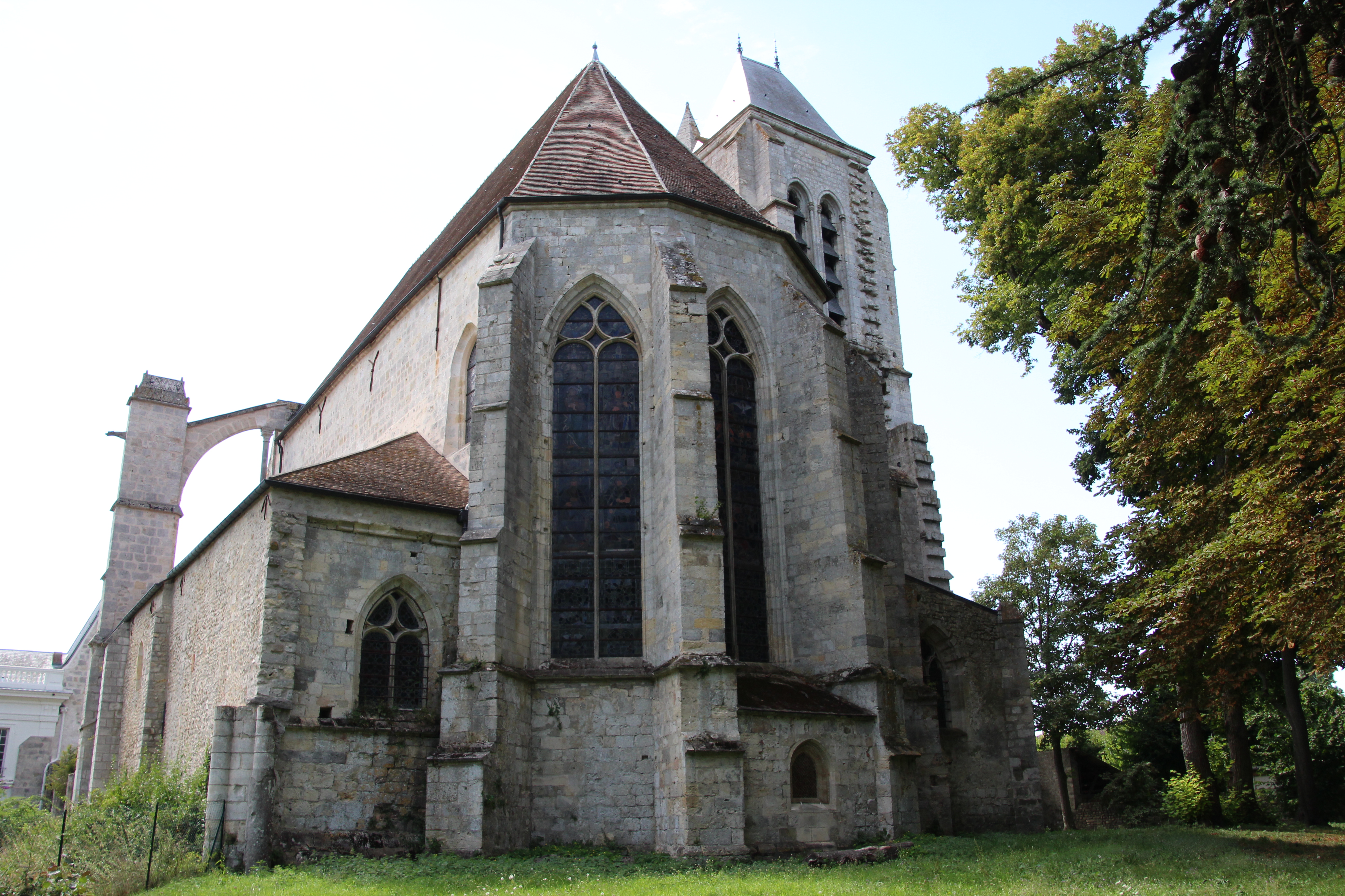 Abbey of the Holy Trinity of Morigny-Champigny, France